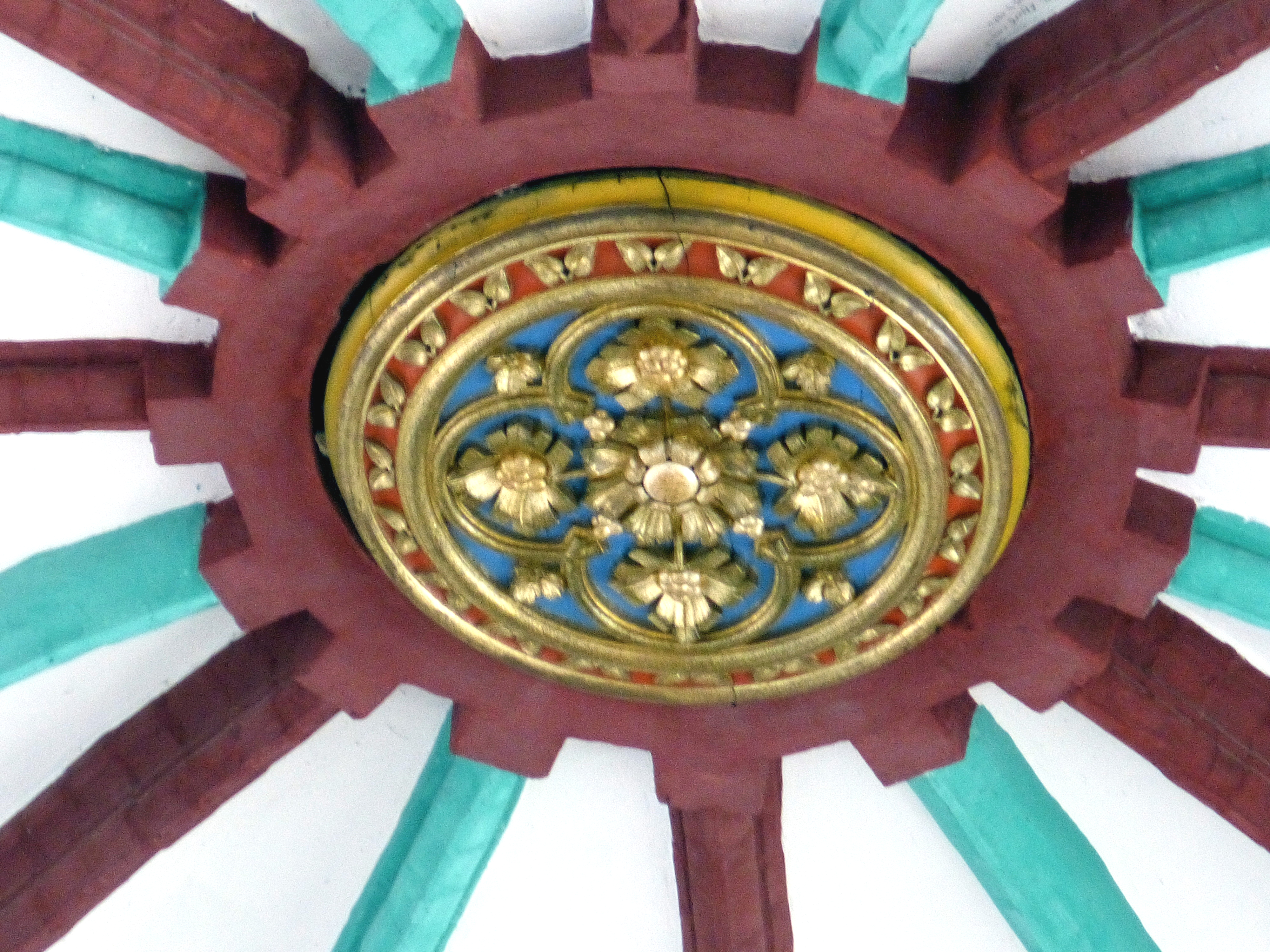 Schwerin Cathedral ( Mecklenburg ). Boss at the gothic vault ( 15th century ).